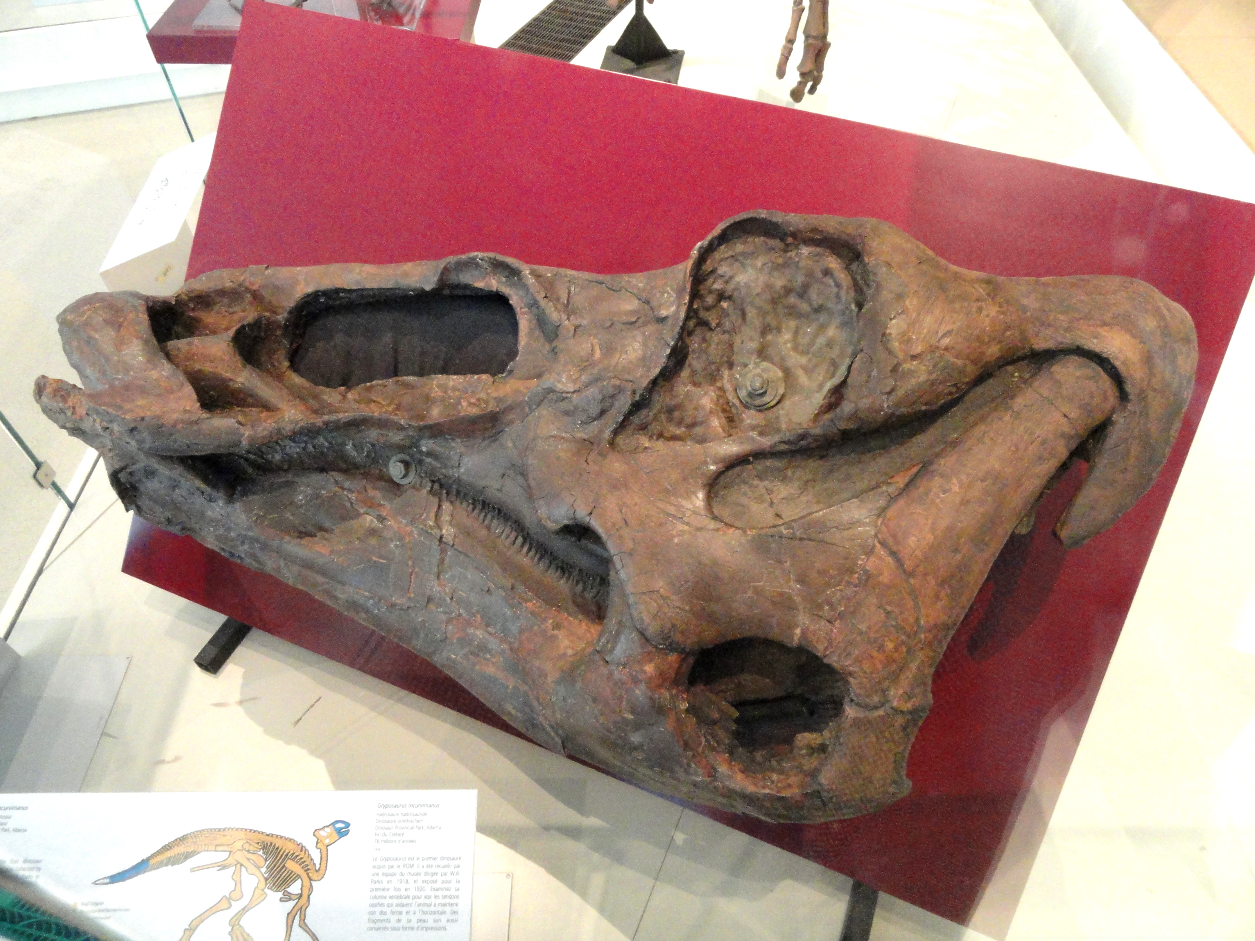 Photograph of ROM 801, a skull of the hadrosaurine hadrosaur Edmontosaurus regalis LAMBE 1917 from the Late Cretaceous (latest Campanian or early Maastrichtian) Horseshoe Canyon Formation of Alberta, Canada,[1] on display in the Royal Ontario Museum, Toronto, Ontario, Canada. ↑ Cf. fig. 2 in: Nicolás E. Campione, David C. Evans (2011): Cranial Growth and Variation in Edmontosaurs (Dinosauria: Hadrosauridae): Implications for Latest Cretaceous Megaherbivore Diversity in North America. PLoS ONE 6(9):e25186